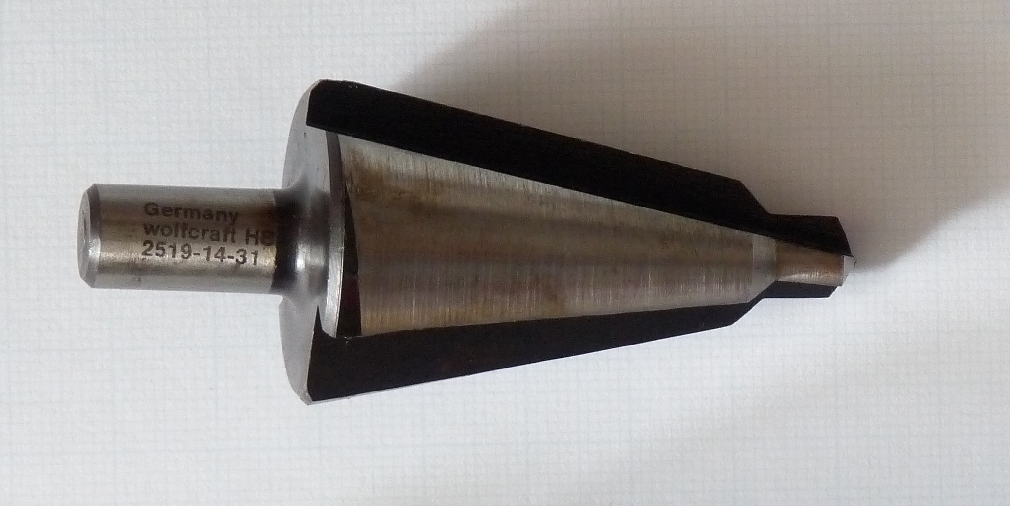 Drill bit